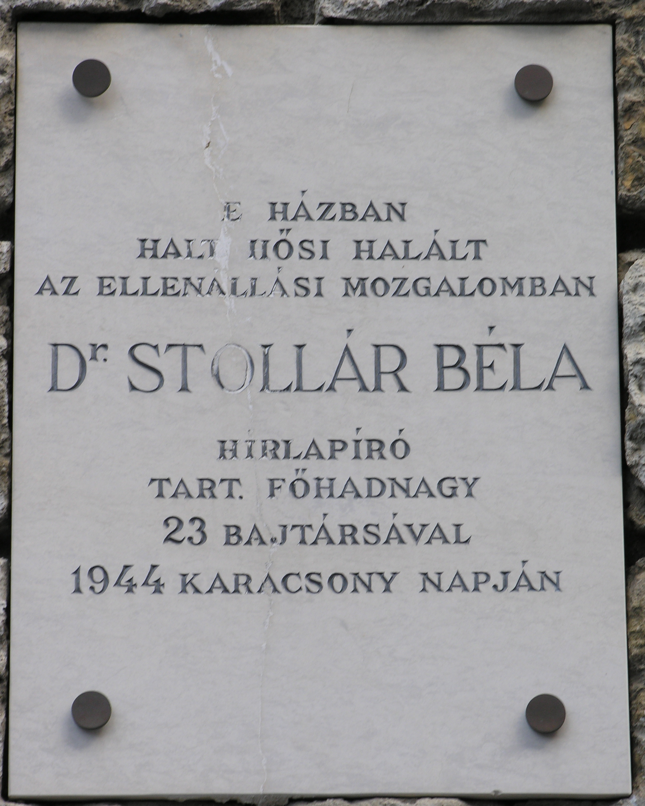 Béla Stollár commemorative plaque in Budapest District V, Stollár Béla Street No 22